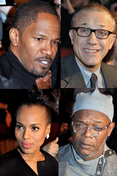 Jamie Foxx, Christoph Waltz, Kerry Washington and Samuel L. Jackson in Paris at the French premiere of "Django unchained"